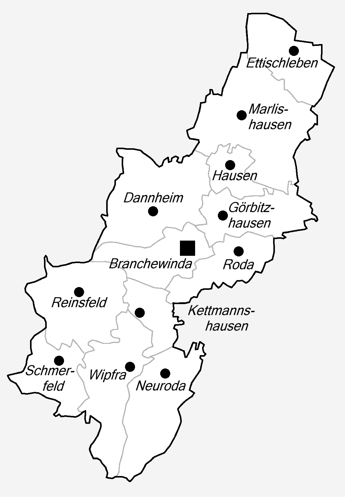 District-Maps of Wipfratal.